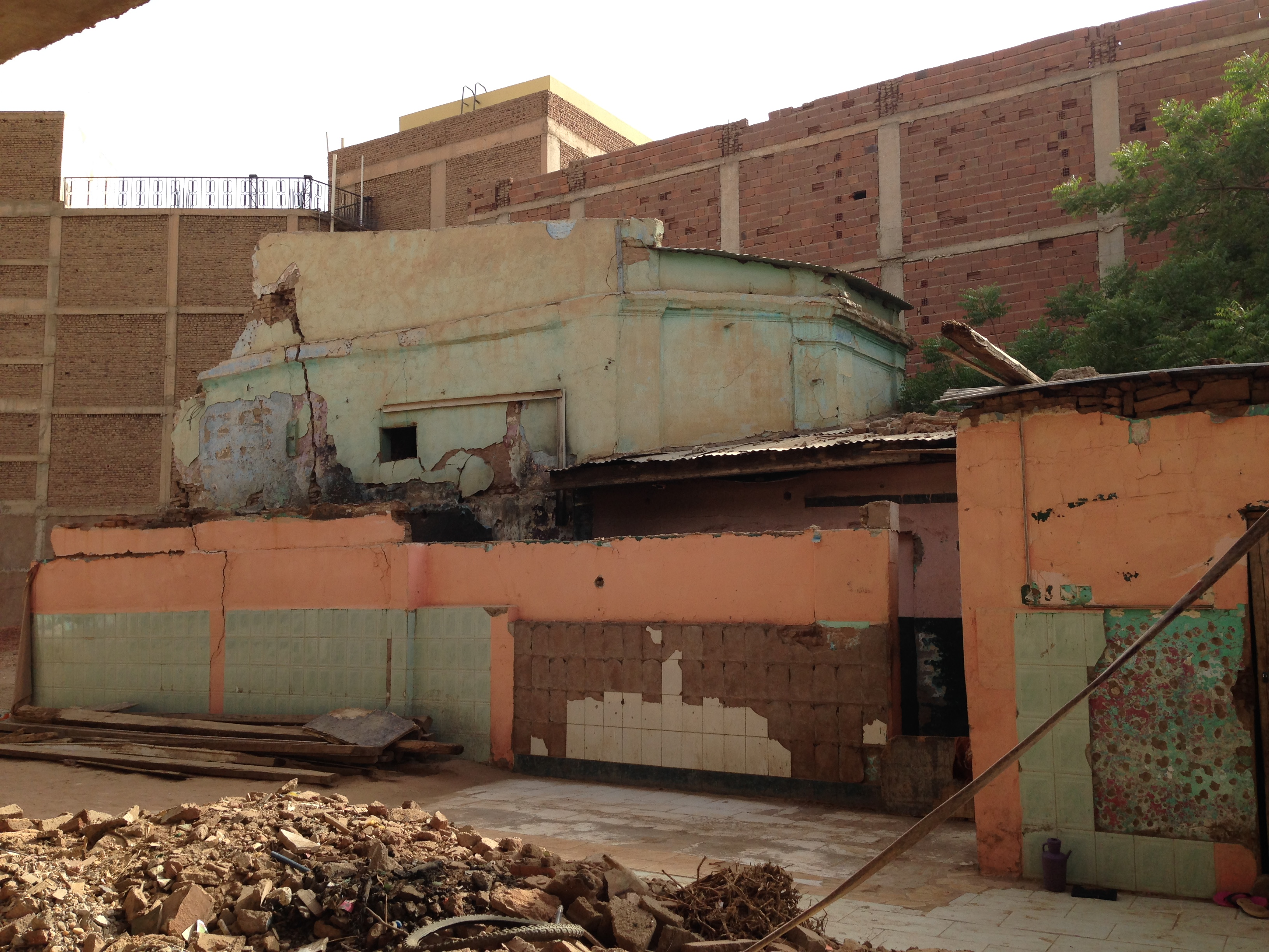 The ruins of the formerly Greek-owned St. James Music Hall in downtown Khartoum, Sudan